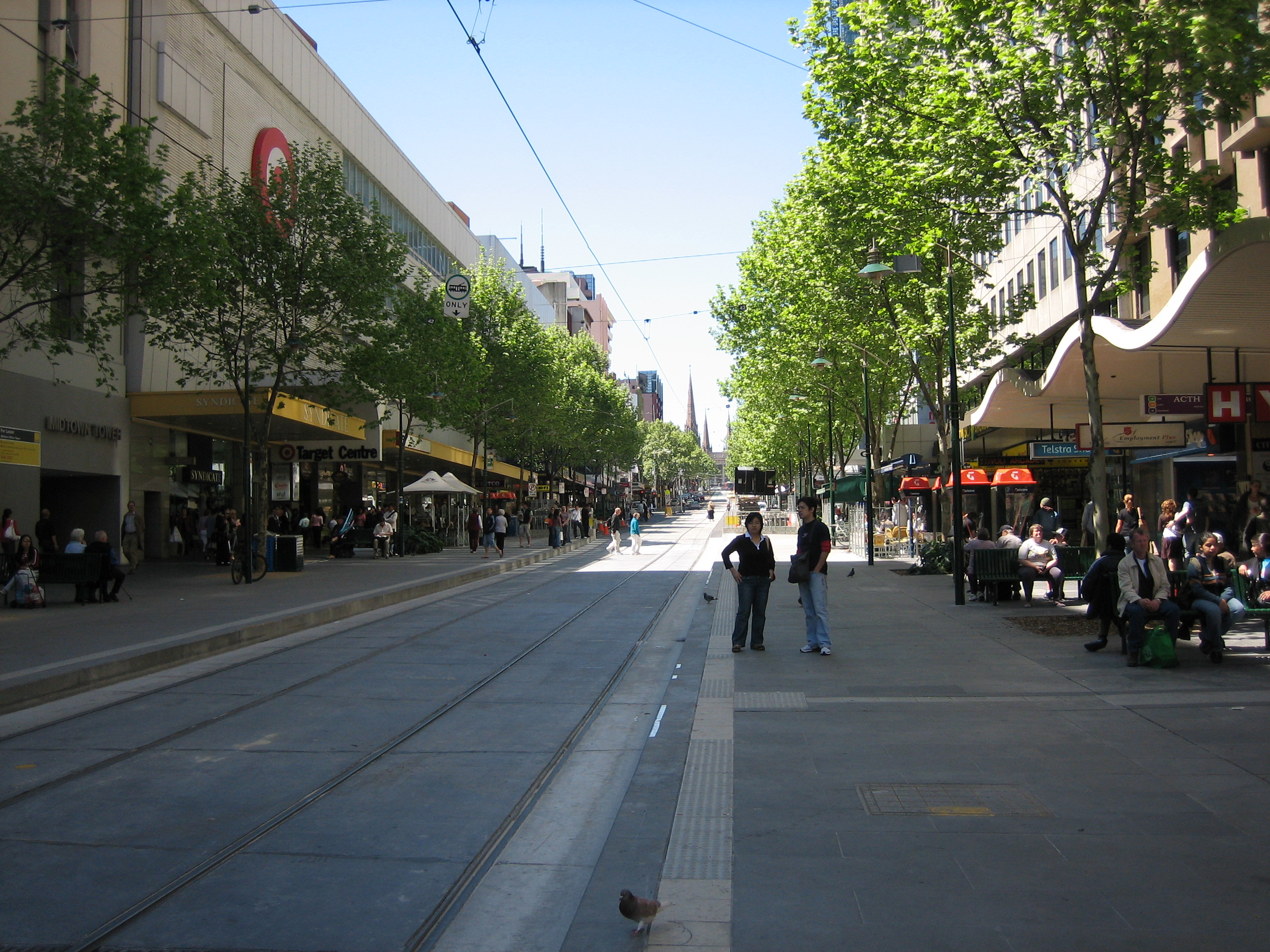 Bourke Street Photographer: Simon Laird